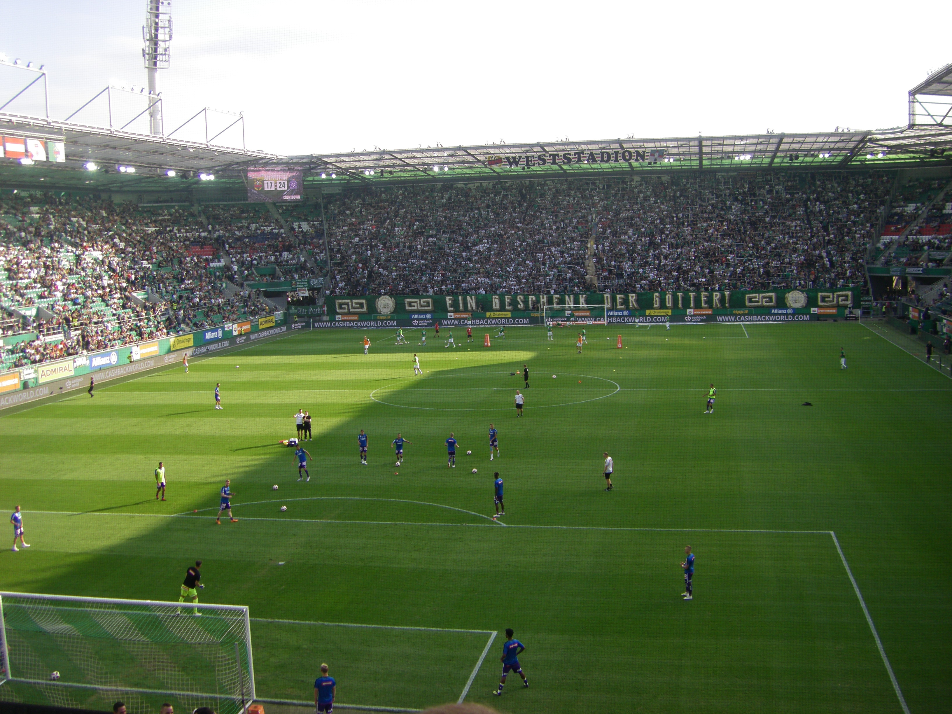 Inside the Allianz Stadion (West Stadion), Vienna, home of SK Rapid, before the derby versus FK Austria on Sept. 16, 2018.